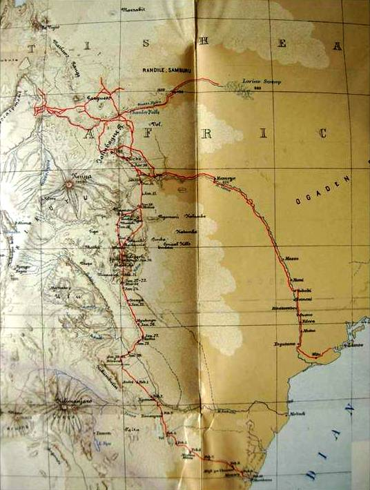 Map of East Africa explorations by W. A. Chanler and Ludwig von Höhnel, 1892-1894.